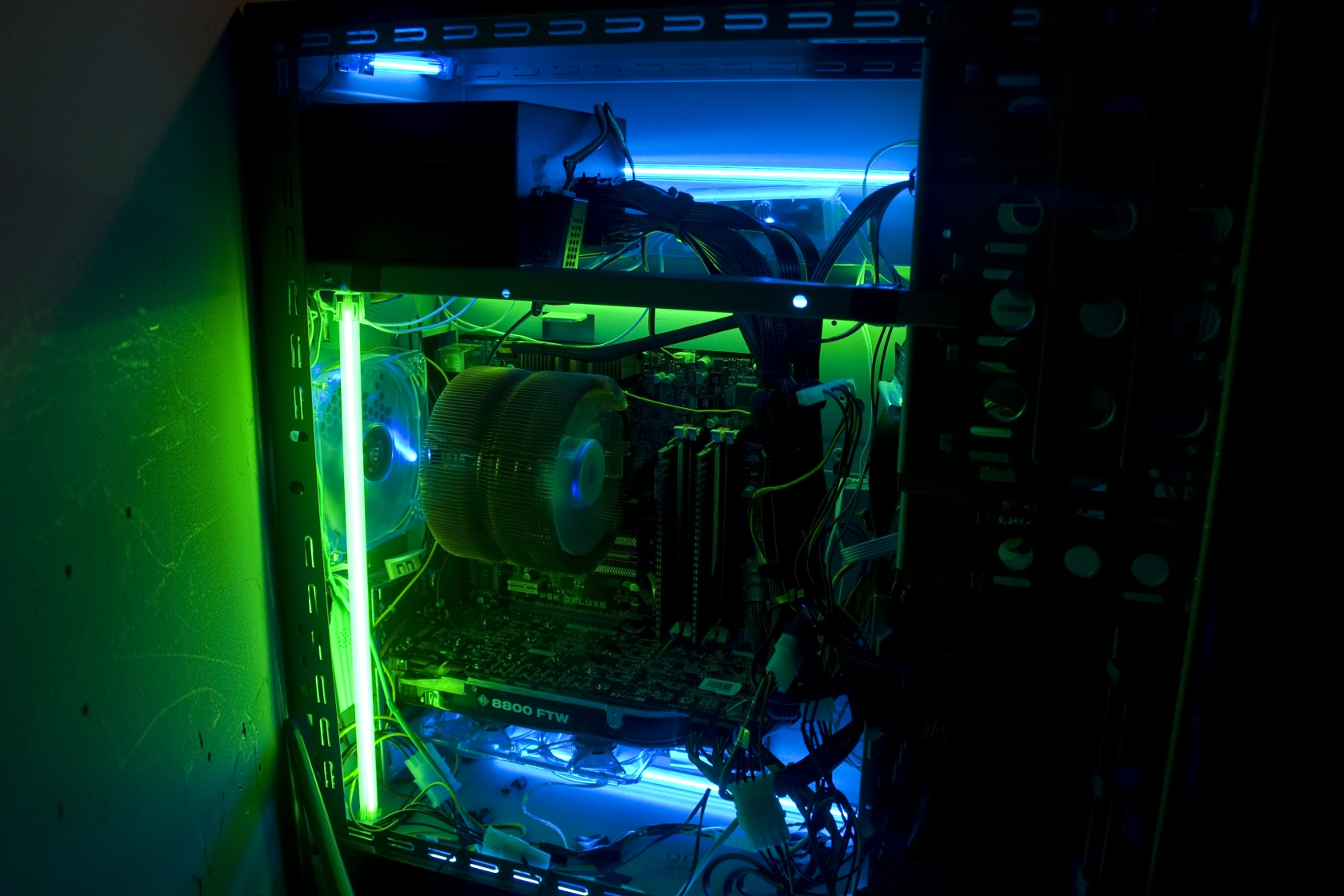 And yes, I know my wires need to be cleaned up, just haven't gotten around to that yet D: User:GuitarFreak GuitarFreak (User talk:GuitarFreak talk) 02:36, 15 January 2008 (UTC) And yes, I know my wires need to be cleaned up, just haven't gotten around to that yet D: GuitarFreak (talk) 02:36, 15 January 2008 (UTC)